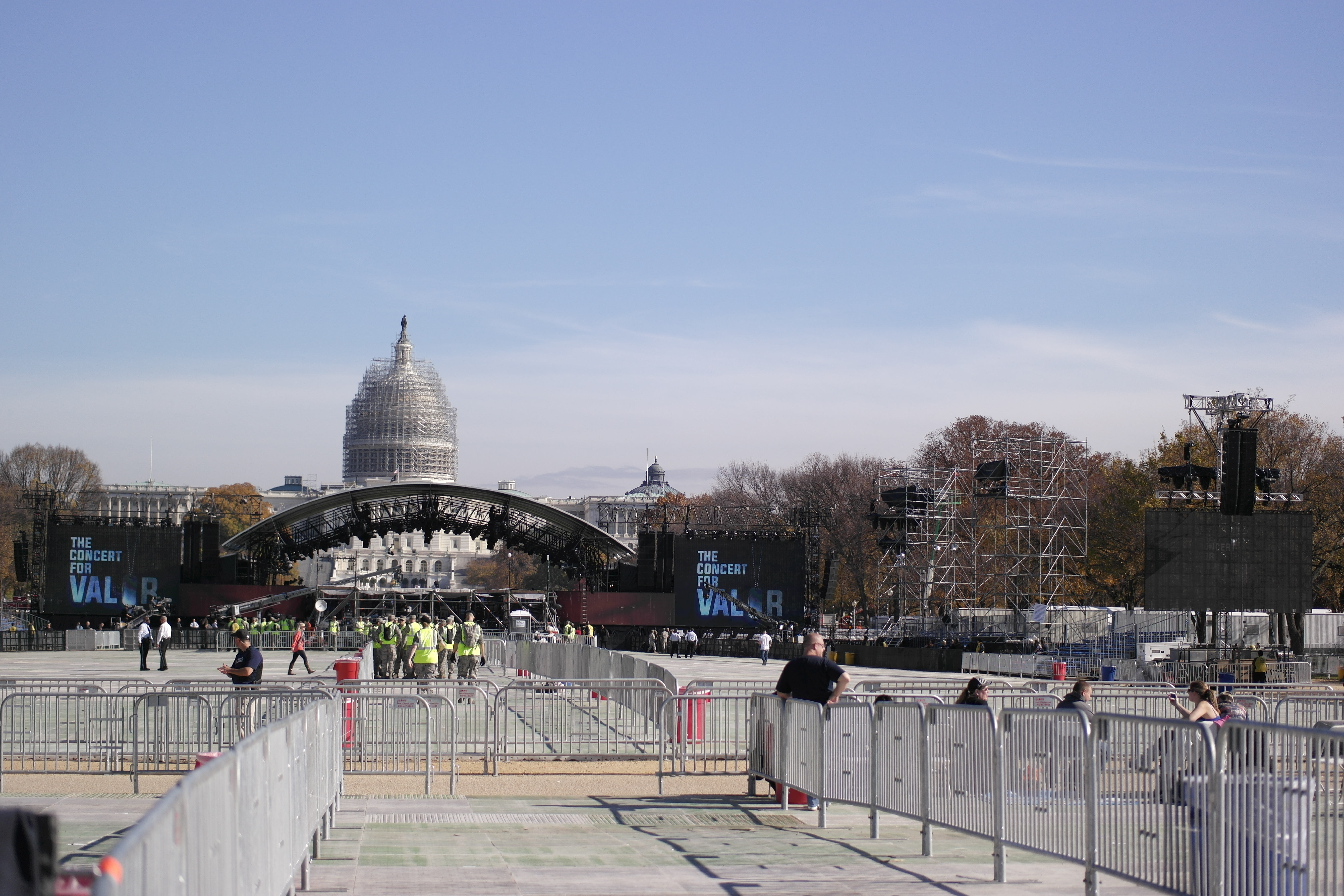 The Concert for Valor 2014